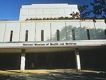 The exterior of the National Museum of Health and Medicine